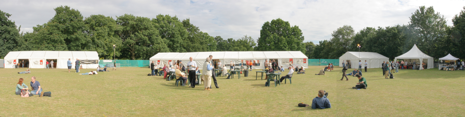 19th Ealing Beer Festival. Held in Walpole Park, Mattock Lane, Ealing W5. Organized and run by Campaign for Real Ale (CAMRA).